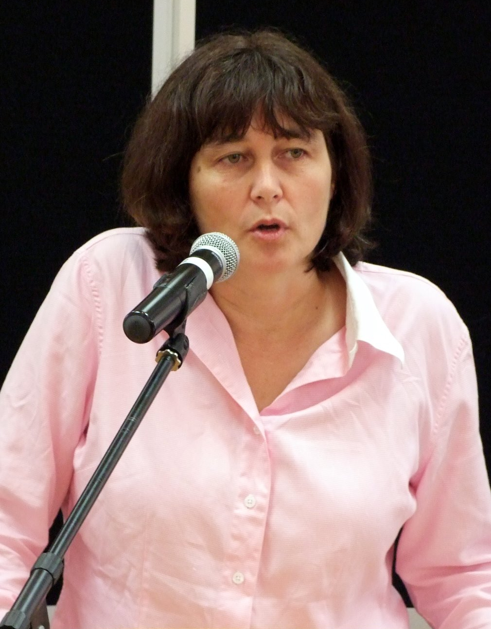 Crop of Helen Kelly (President of the NZCTU) speaking at the Bargaining Forum 2011.